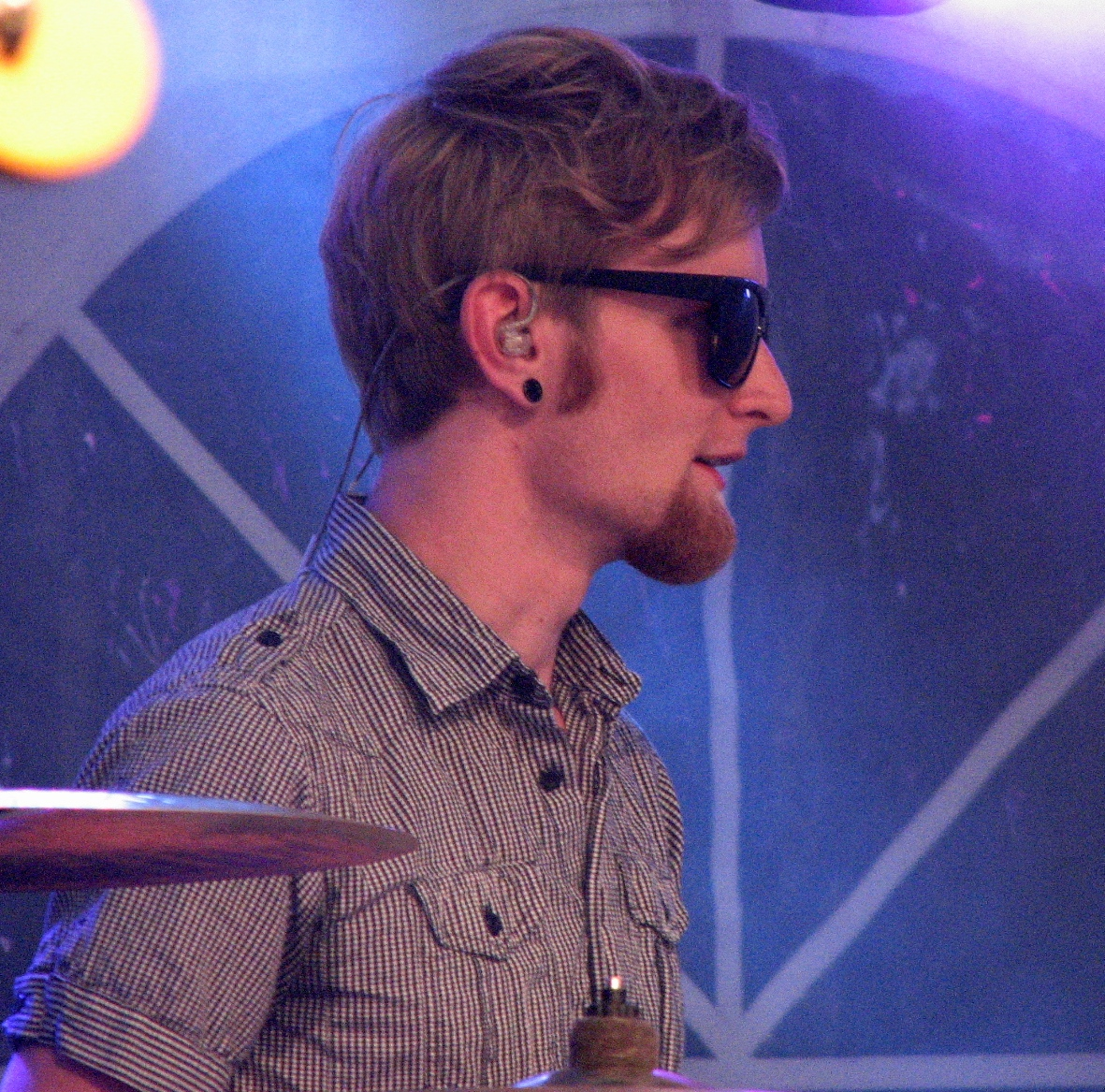 Kaspar Kalluste performing in Õlletoober 2010